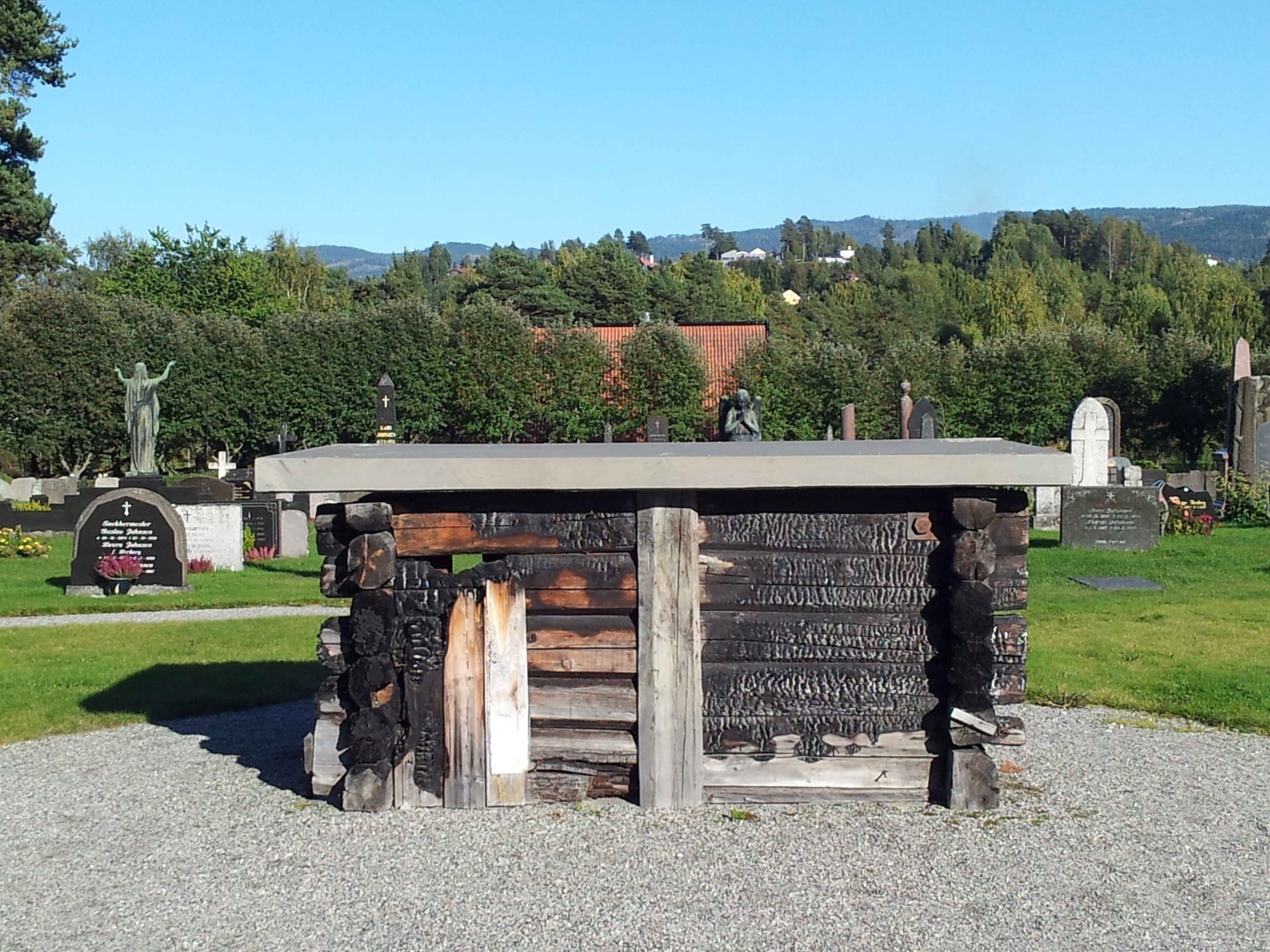 Altar built by what's left of Hønefoss church, Norway. The top stone is a stone that used to lay outside the entrance to the old church. The wood is from the old church. The altar is standing on the ground where the church used to stand